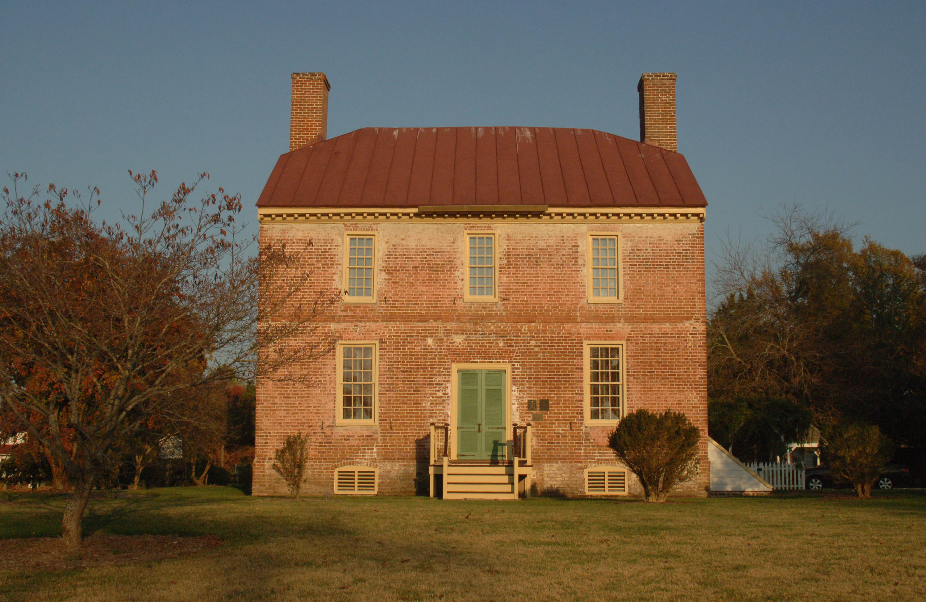 THIS HOUSE WAS BUILT BY JOHN STUBBS IN 1702 AT THE SITE WHERE A FERRY WAS ESTABLISHED OVER THE YORK RIVER